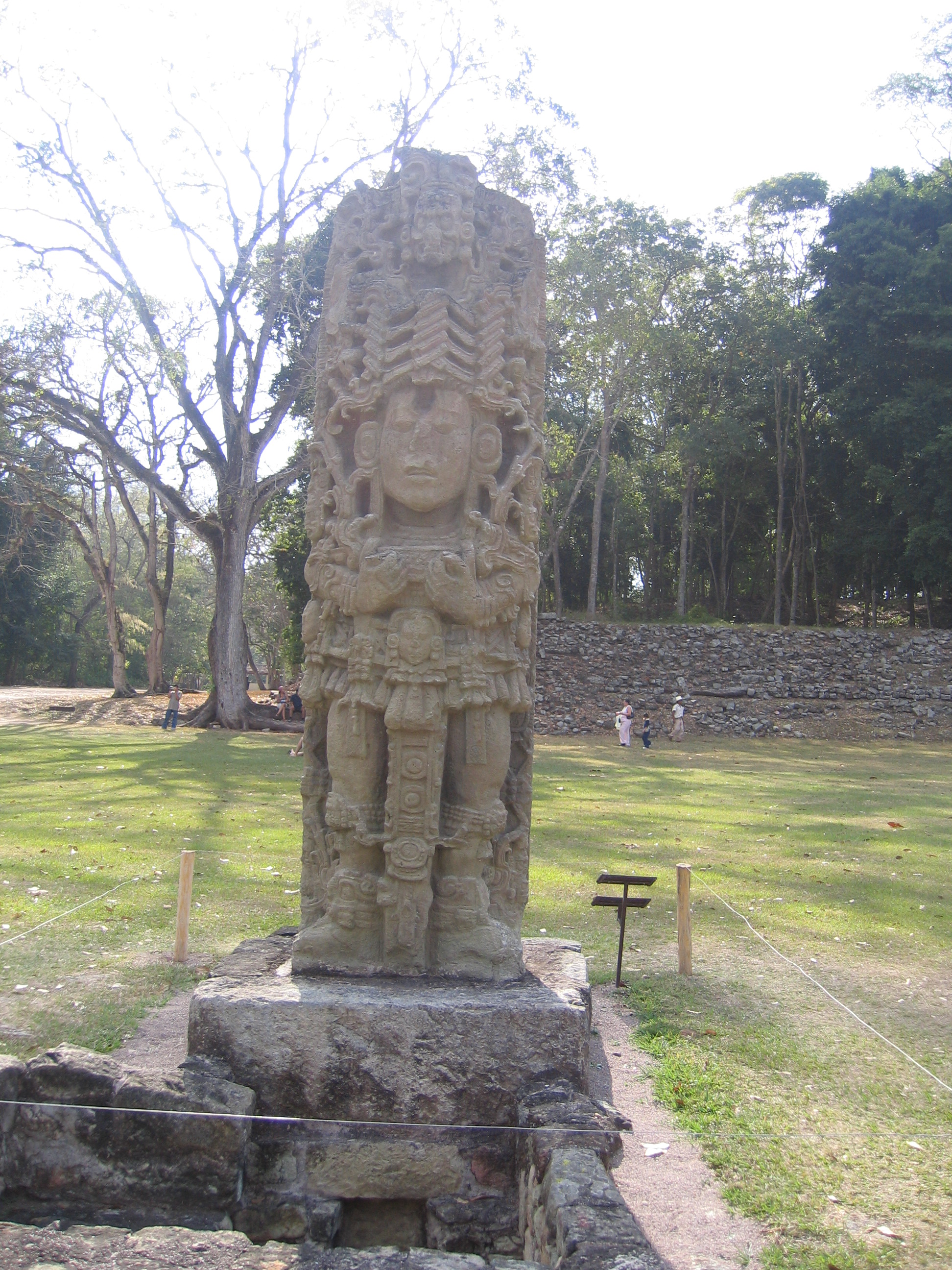 From the mayan site Copán